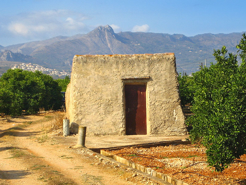 Casup (country shack) typical of county Marina, located near Beniarbeig, county Marina Alta, Region of Valencia, Spain.